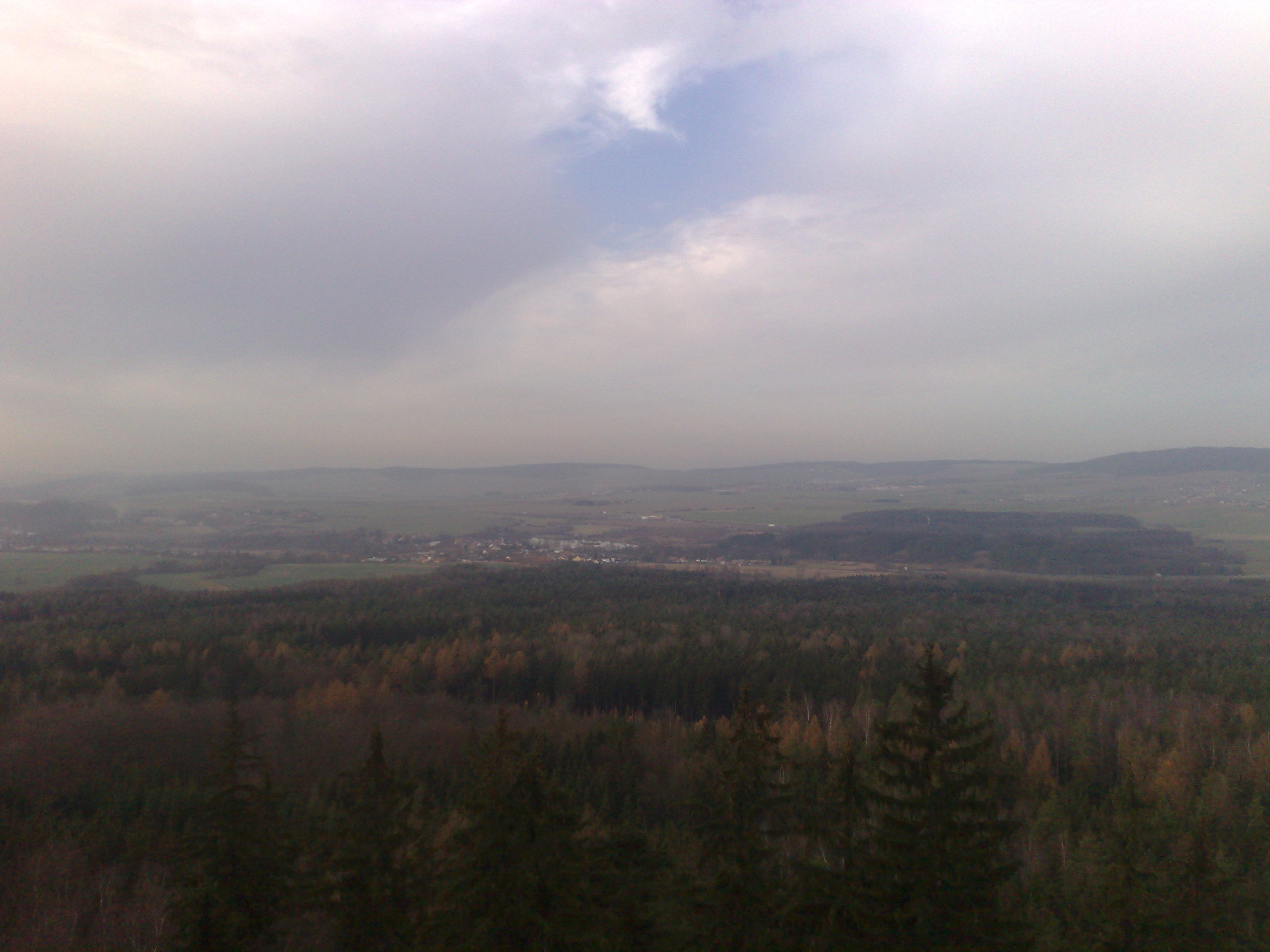 Lookout from summit of Žďár (629 m), a mountain east of Rokycany, Czech Republic.